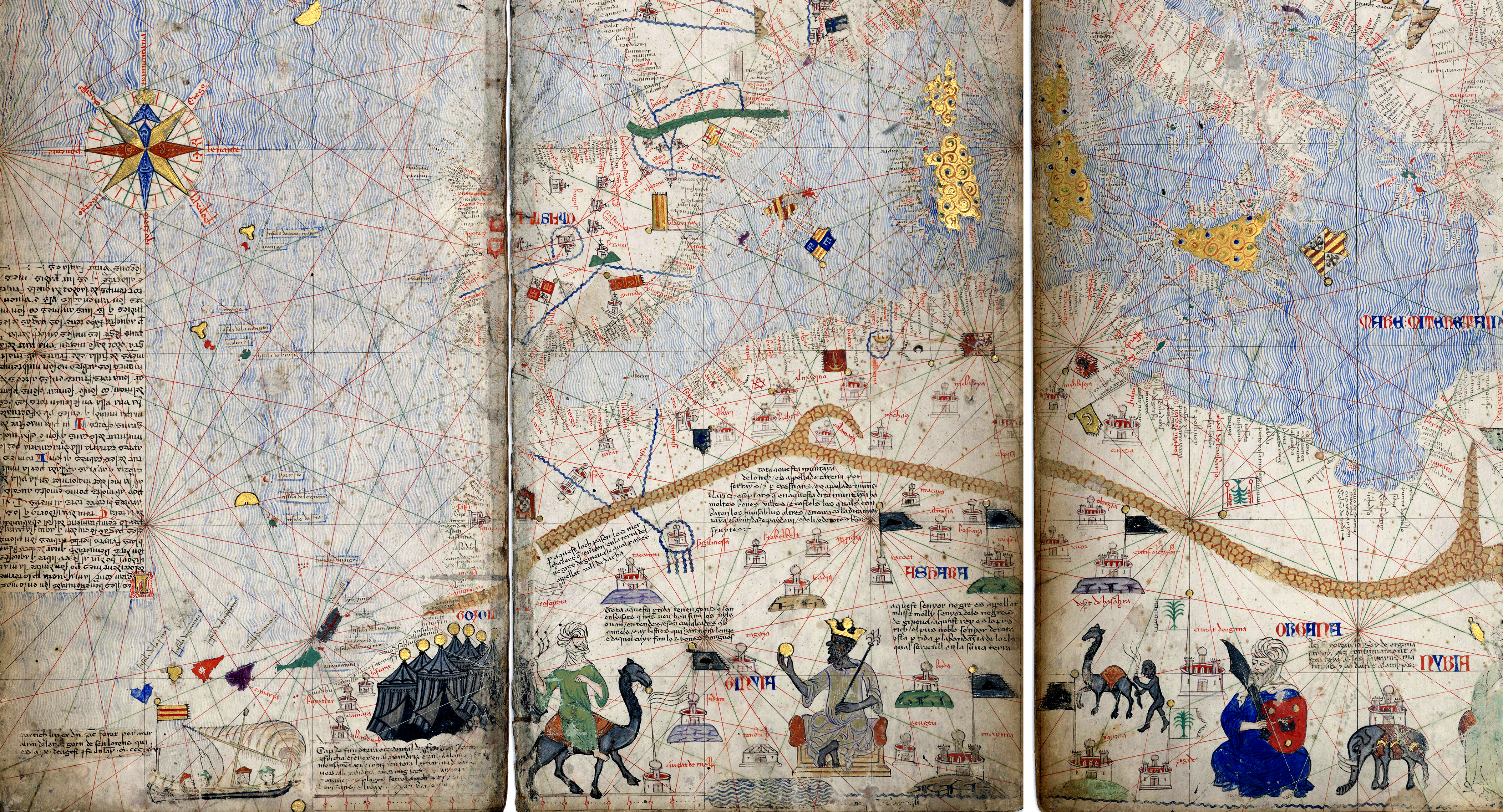 Catalan Atlas of the known world (mapamundi), drawn by Abraham Cresques of Mallorca.